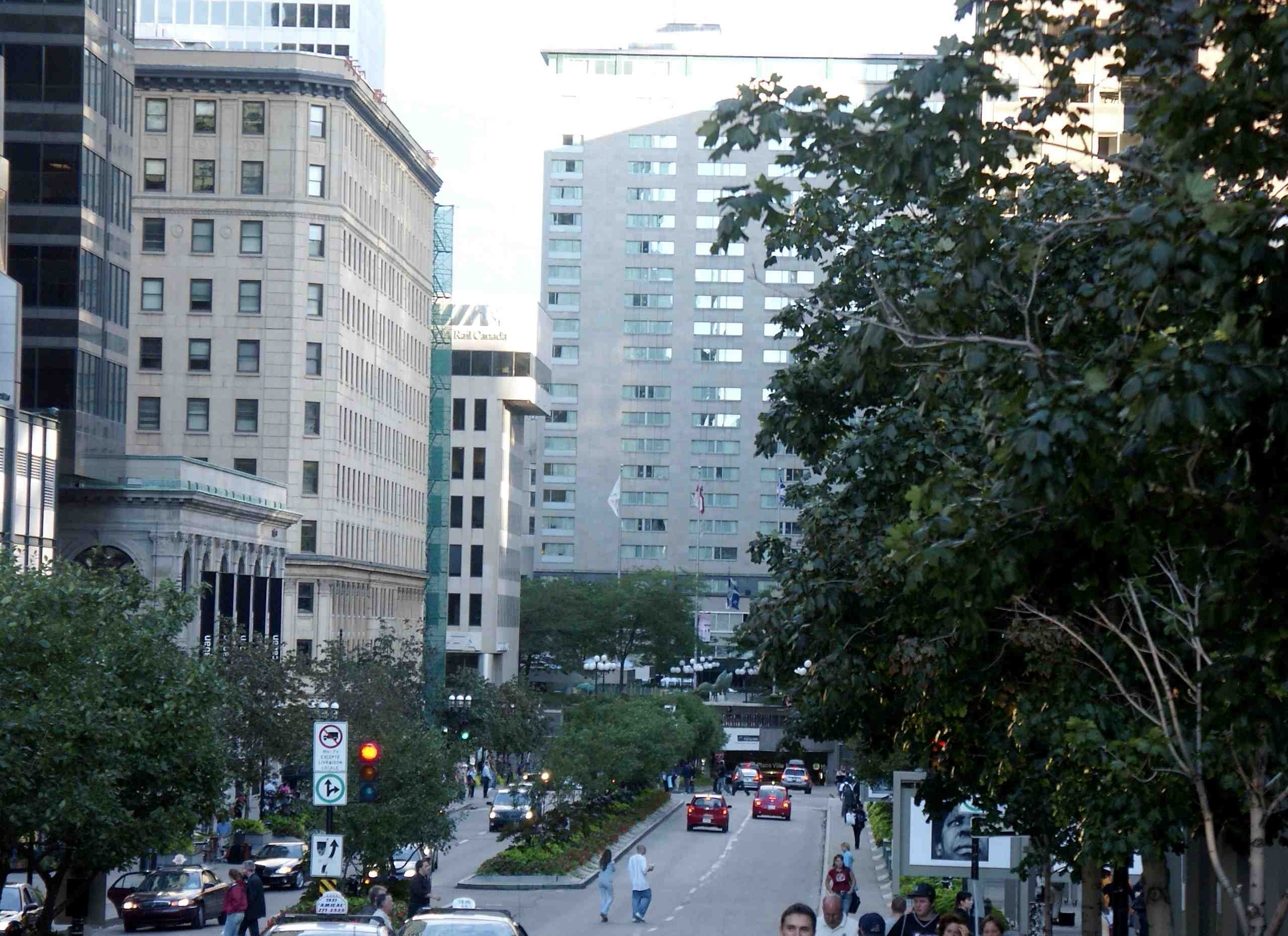 McGill College Avenue, Montreal. Photo by: User:Gene.arboit